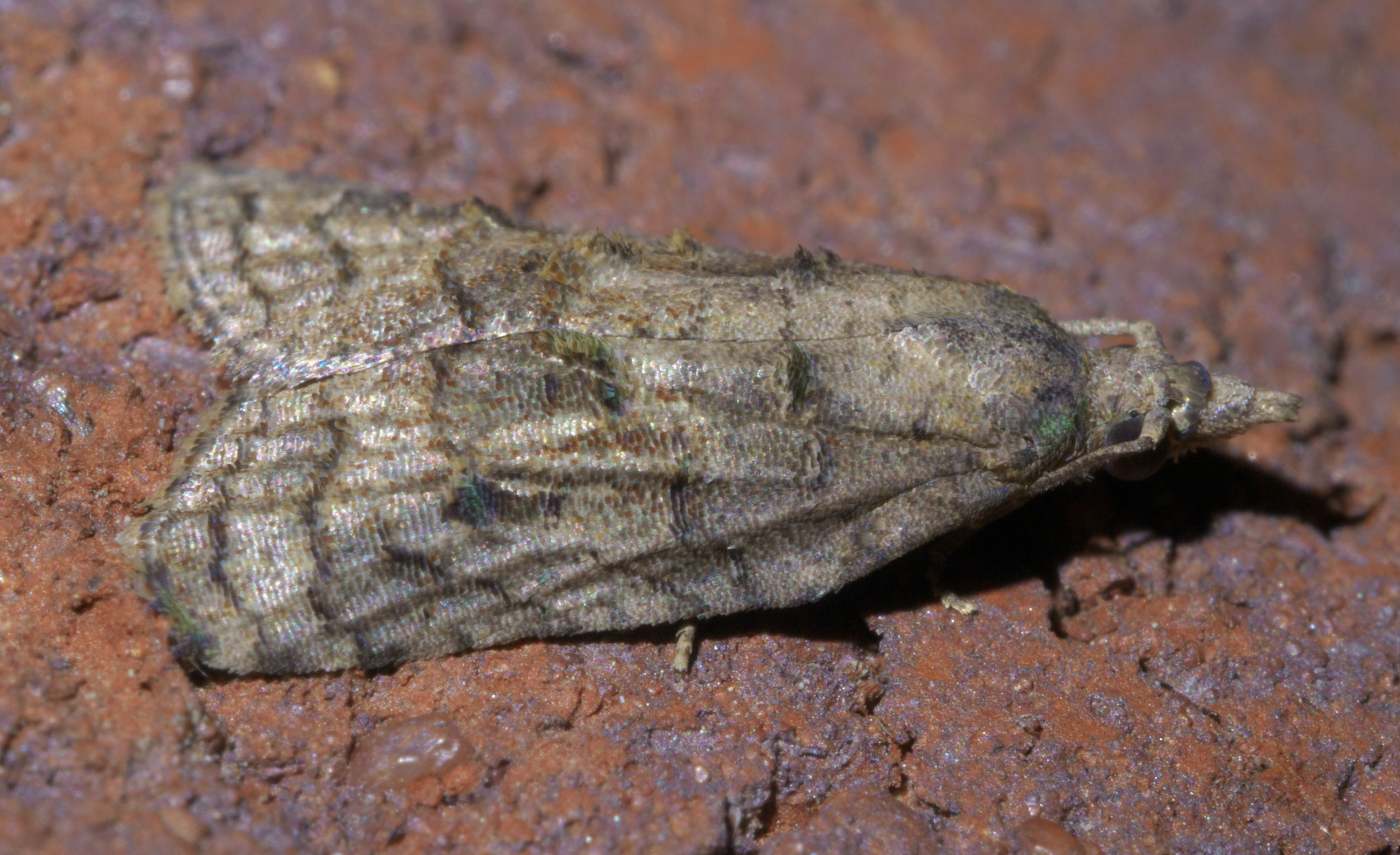 Platynota idaeusalis, tufted apple bud moth, Size: 10.3 mm, ID Confidence: 88